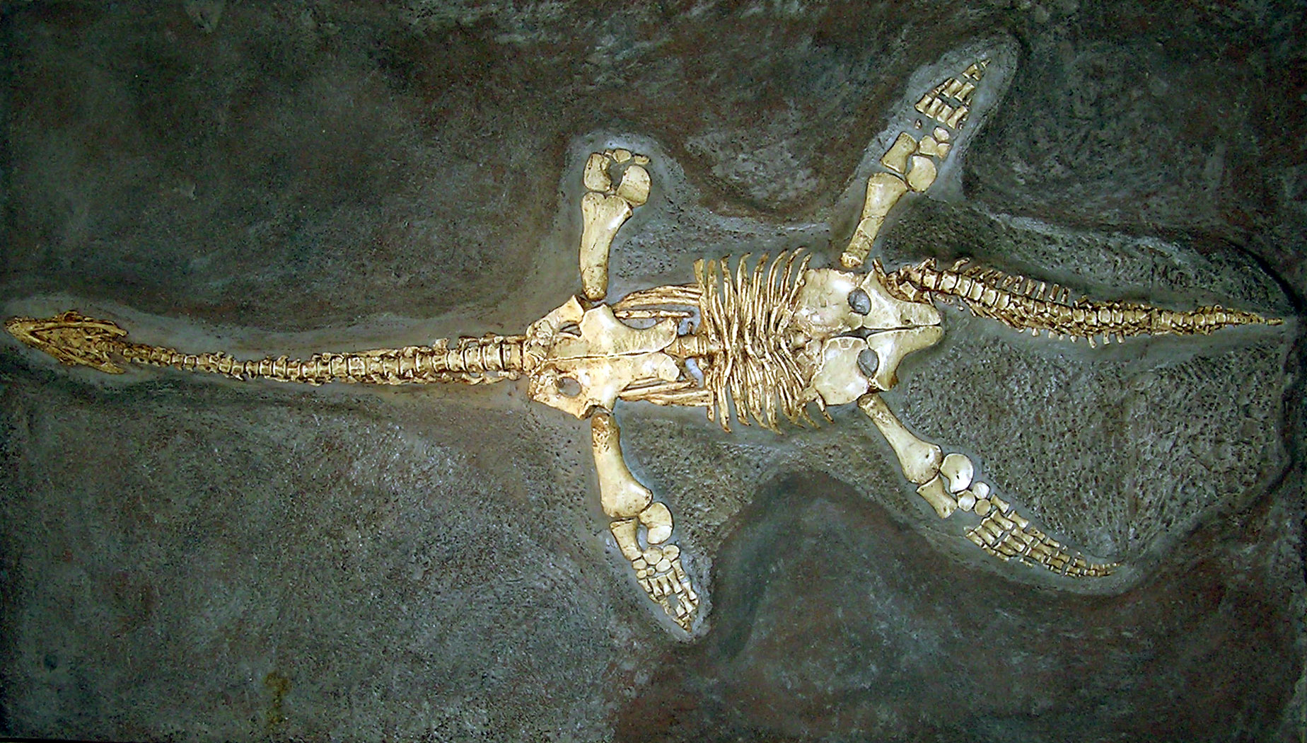 Cast of a Thalassiodracon hawkinsi skeleton (known as Hawkin's Plesiosaur) at Bristol City Museum, Bristol, England. Found in the Lower Lias strata, Street, in the county of Somerset, England. The original is in the Natural History Museum, London, England.